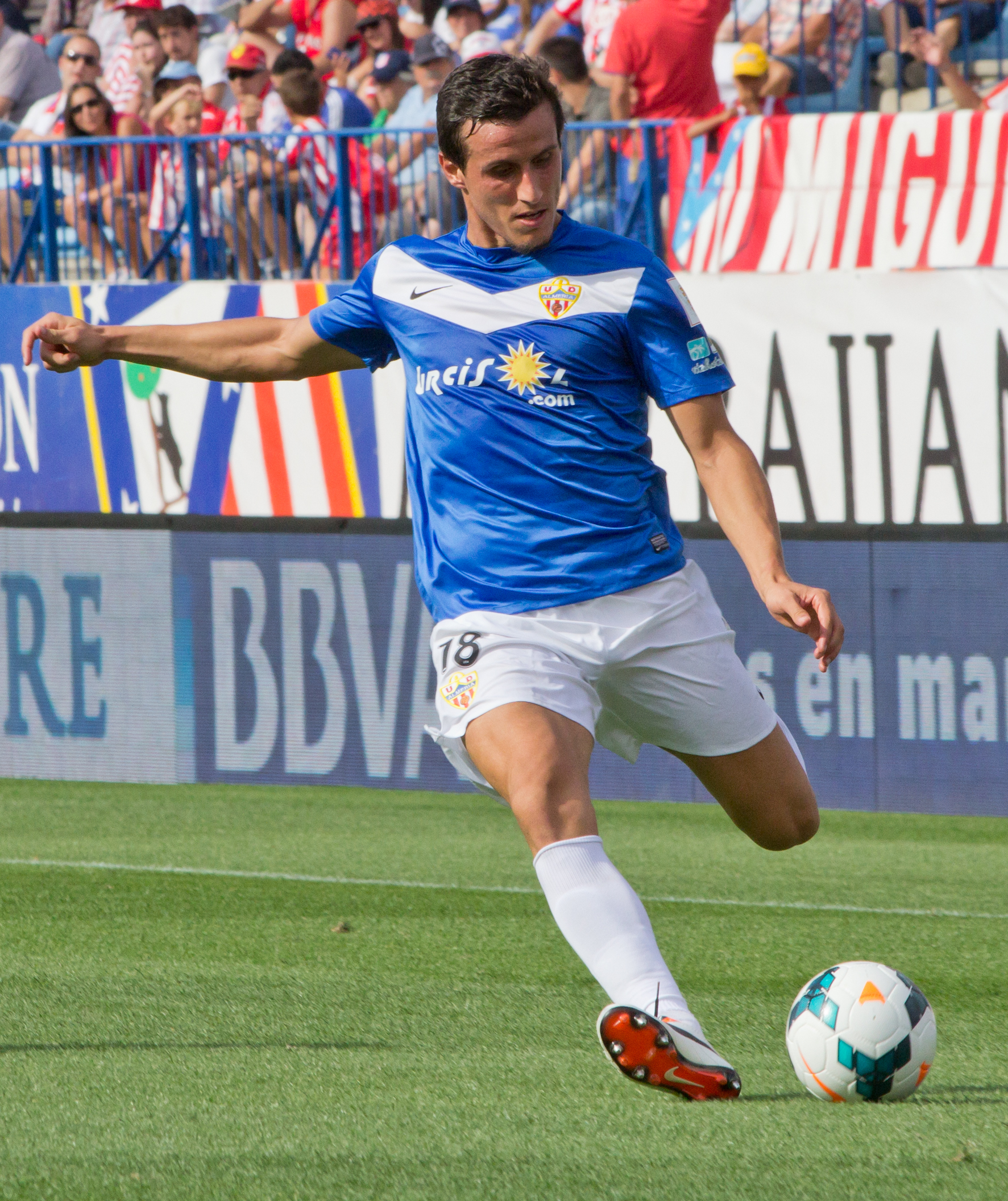 Spanish football player Christian Fernández Salas during a game with UD Almería against Atlético de Madrid at Vicente Calderón Stadium.